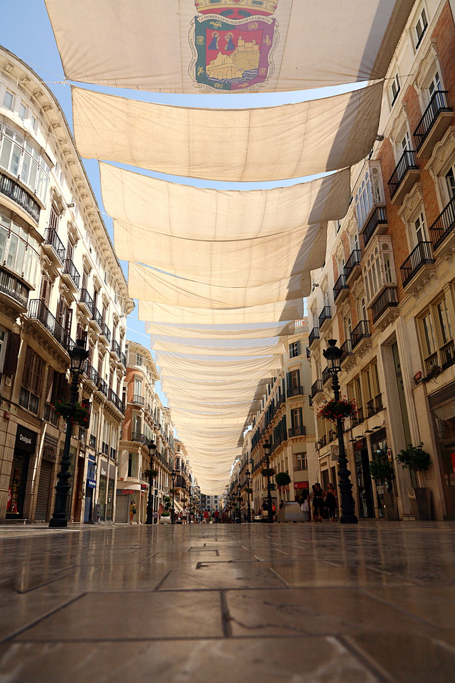 Malaga, Main Street during Feria